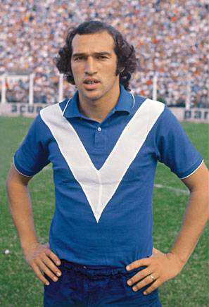 Carlos Bianchi while playing for Vélez Sársfield.